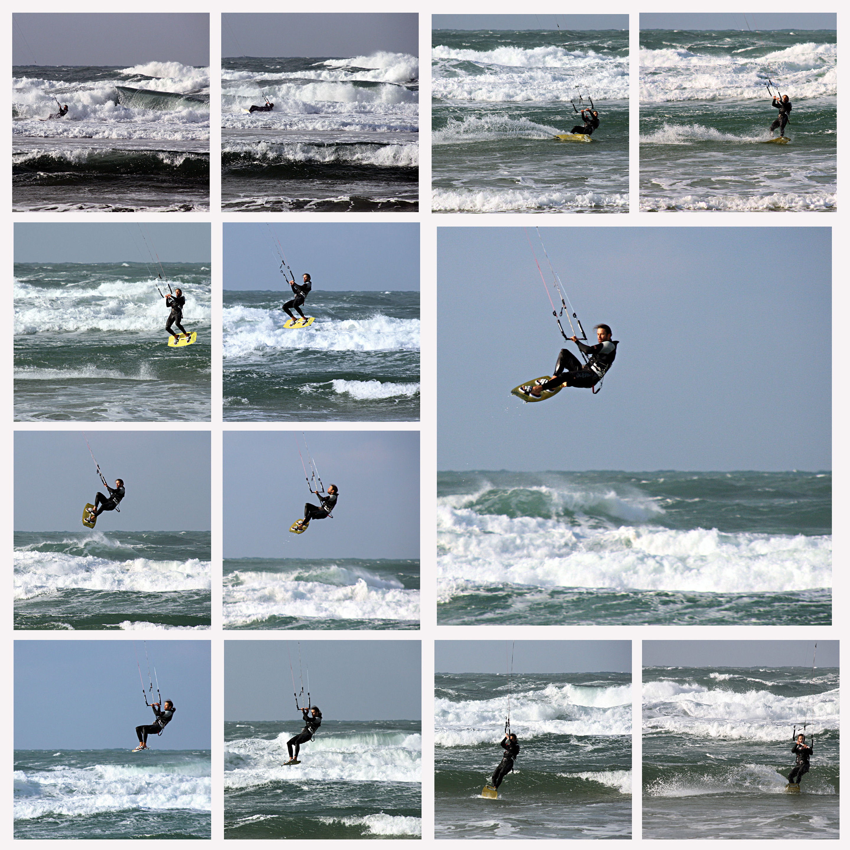 kitesurfing in France